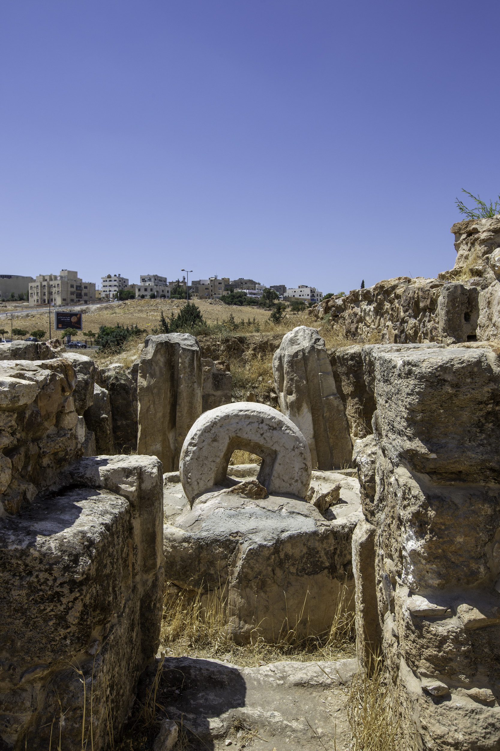 Abdoun Wine Press (Close Up of Ruins)